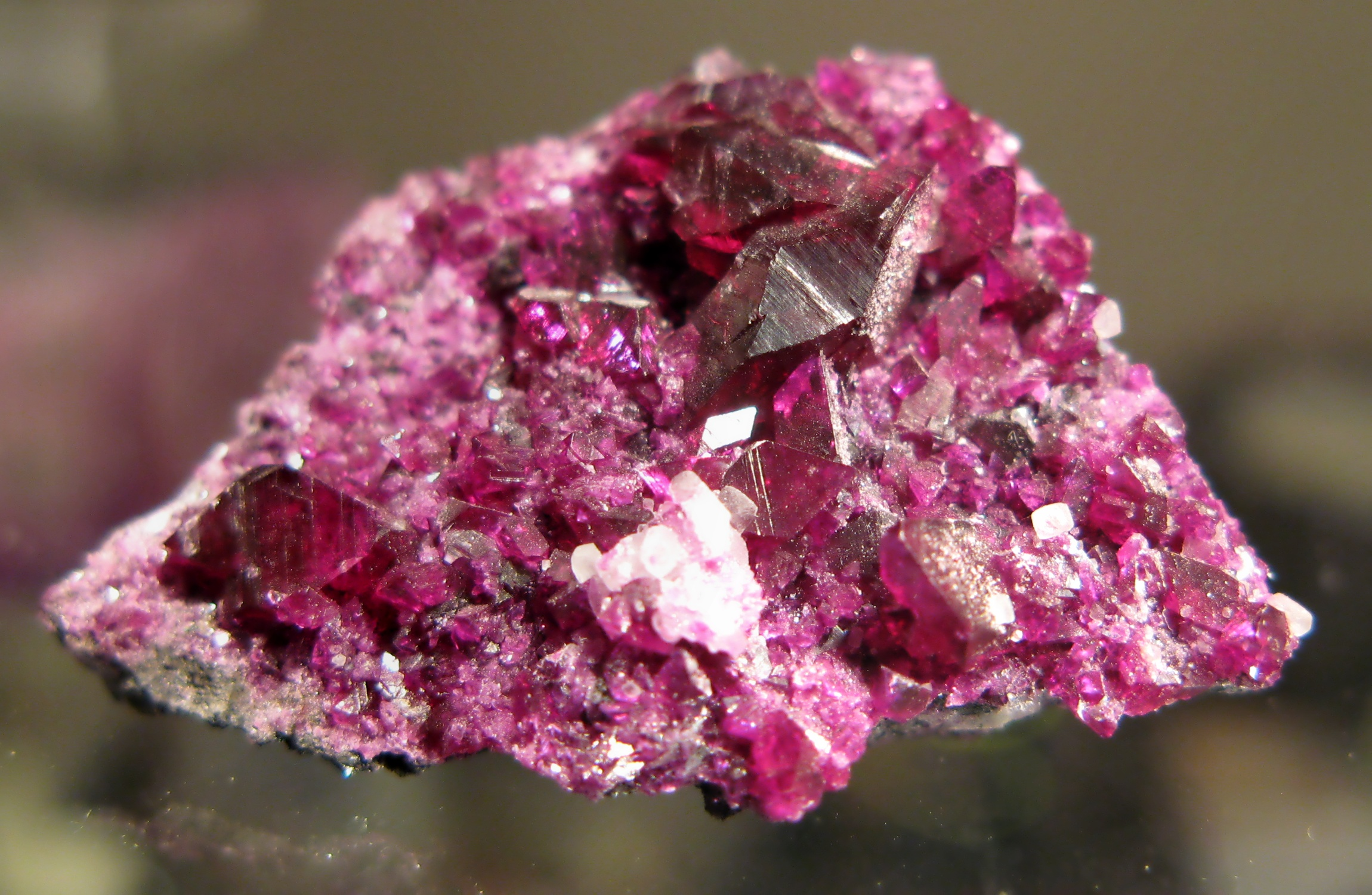 Kämmererite, variety of Clinochlore from Erzurum, East-Turkey